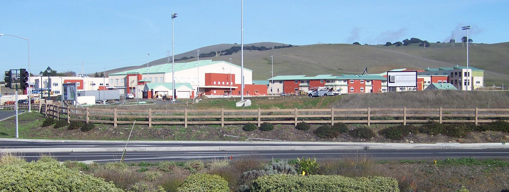 A photo of American Canyon High School, under construction in 2009. The high school is scheduled to open in the fall of 2010.